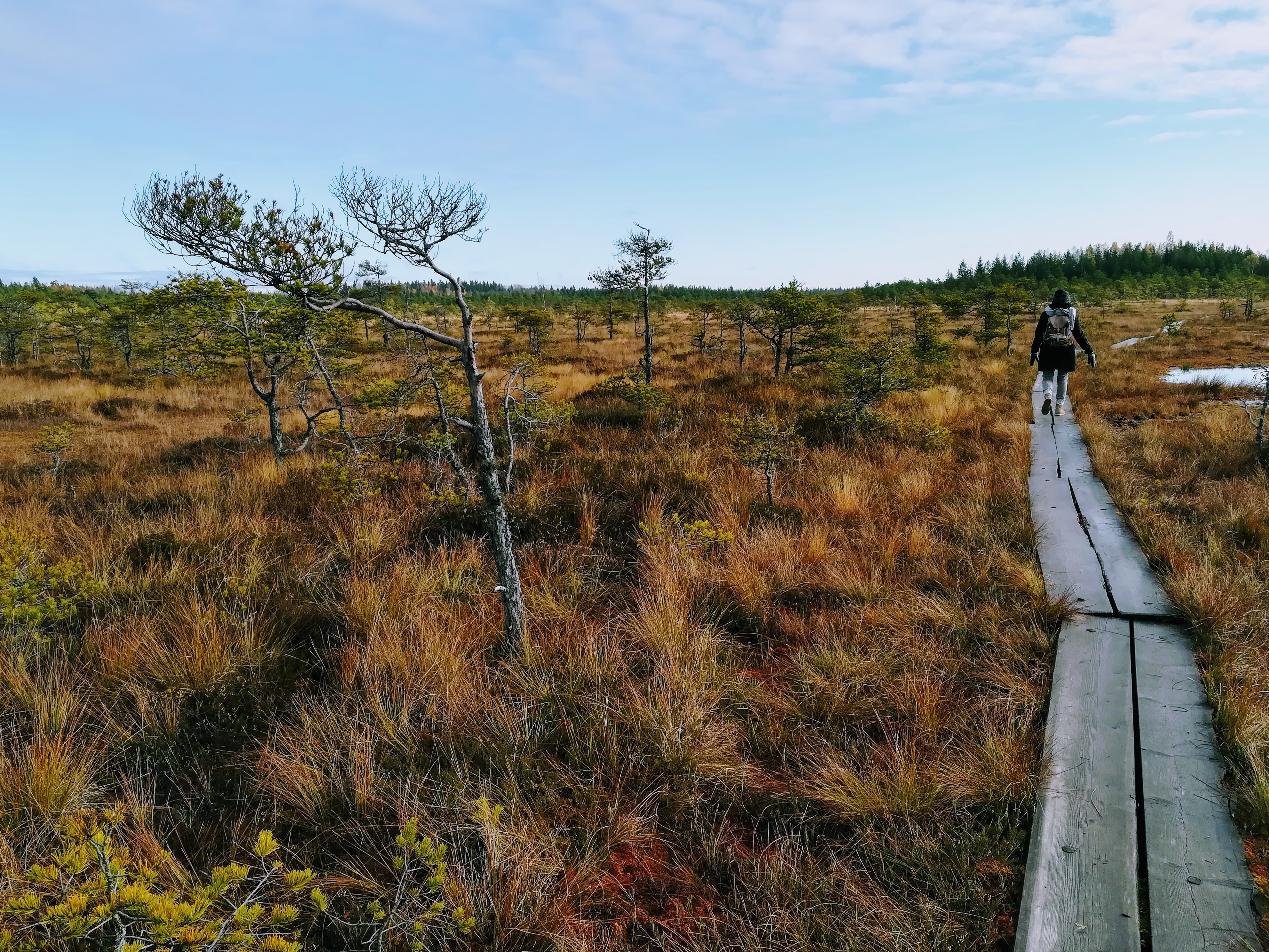 Valkmusa National Park in Pyhtää, Finland.